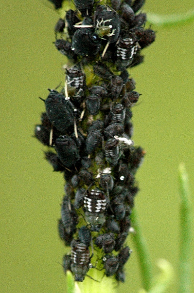 Picture taken in Commanster, Belgian High Ardennes . Species: Macrosiphoniella tapuskae